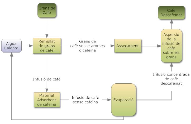 Water decaffeination, old method